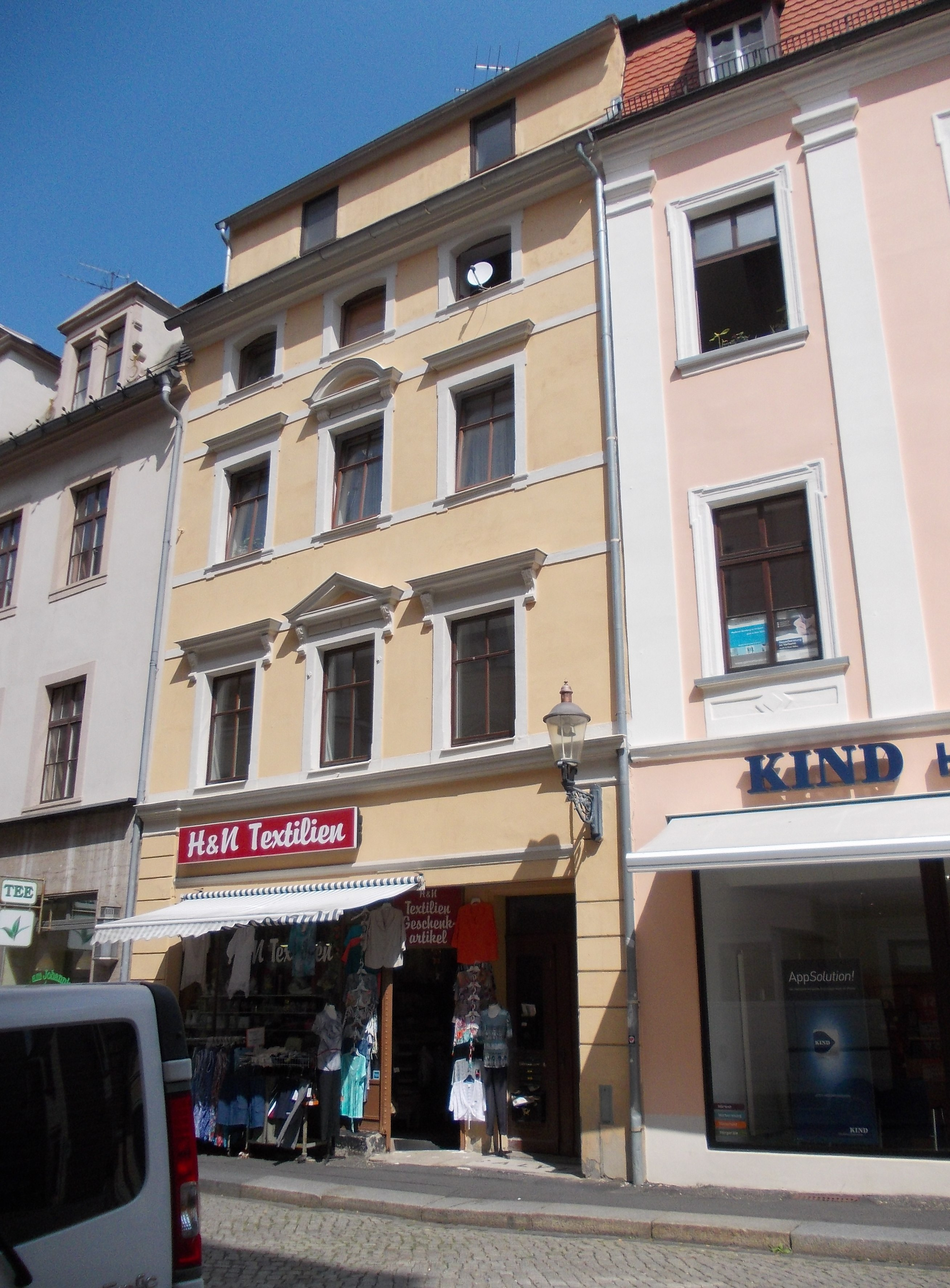 No. 4, Innere Weberstrasse in Zittau (Görlitz district, Saxony), the house where the composer Andreas Hammerschmidt lived from 1656 to 1675.